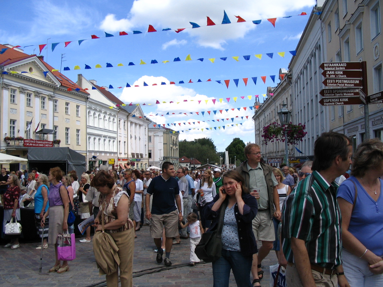 Tartu Hanseatic Days july 2005, Town Hall Square, Tartu, Estonia